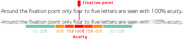 This picture shows the acuity of foveal vision in reading (during one eye stop). The lower line of text simulates the acuity of vision with the relative acuity percentages. To do a test close one eye, fixate the upper line at the fixation point and try to read the words to the right and left without moving your eyes. The result should be similar to the incrementally blurred lower line of text - except that you never have the impression of a blurred text. The reason: Your visual perception is already the result of a massive computational analysis made by your brain. Your system "knows" that the upper line is not blurred, so you don't see it as blurred. But the difficulty of recognition increases with the distance from the fixation point.